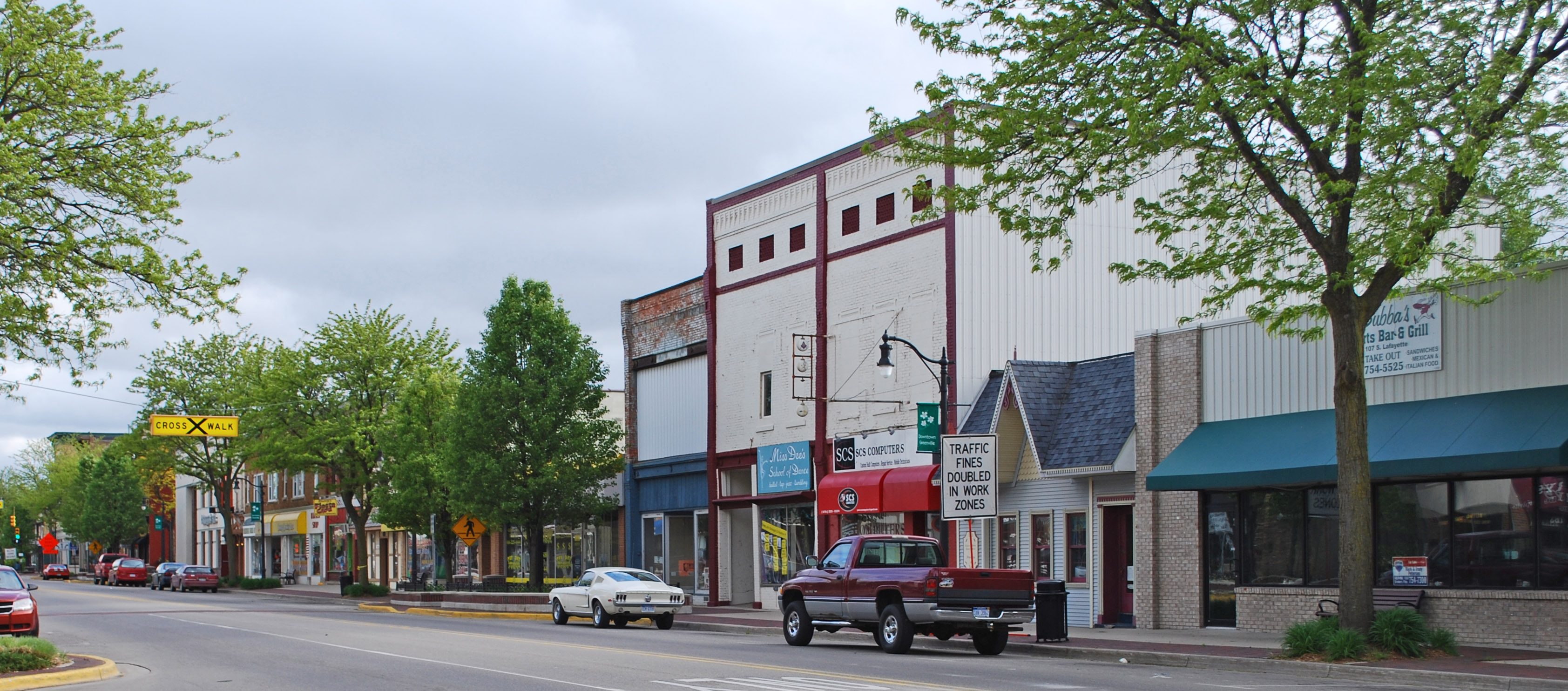 Greenville MI Downtown Historic District, taken from the Winter Inn